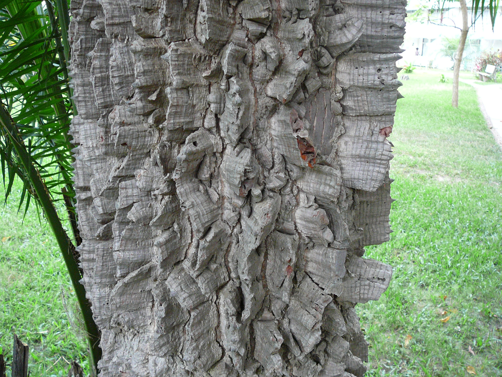 red-flowered silk cotton tree